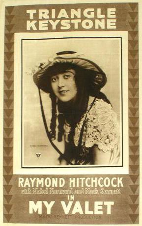 Advertising poster for the film My Valet (1915), with photo portrait of co-star Mabel Normand.